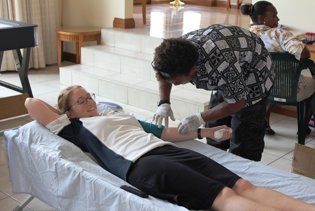 Australian Volunteer Mary Elliot donates blood as part of a blood drive organised for International Volunteers Day, Honiara, Solomon Islands, 2013.